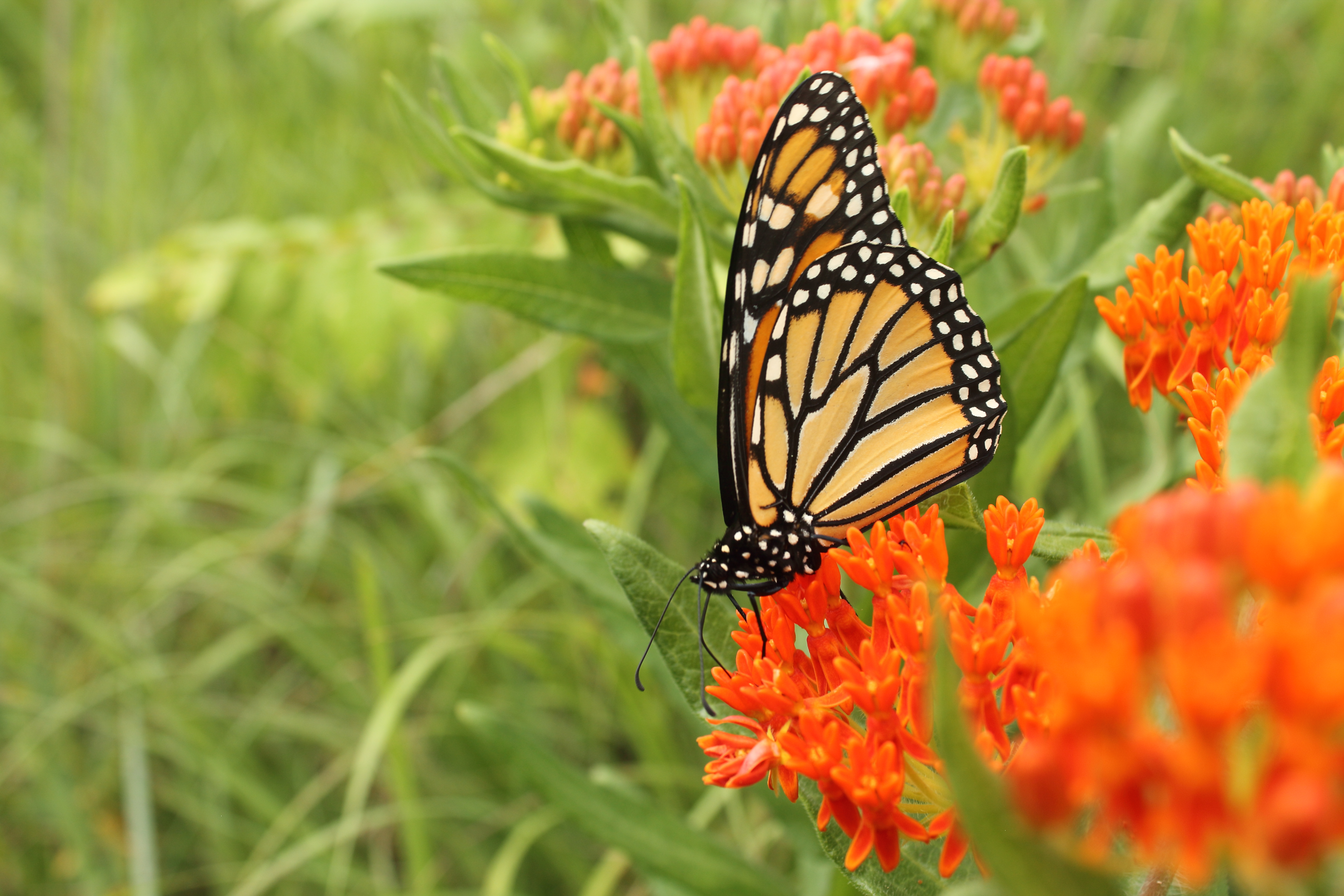 monarch feedig